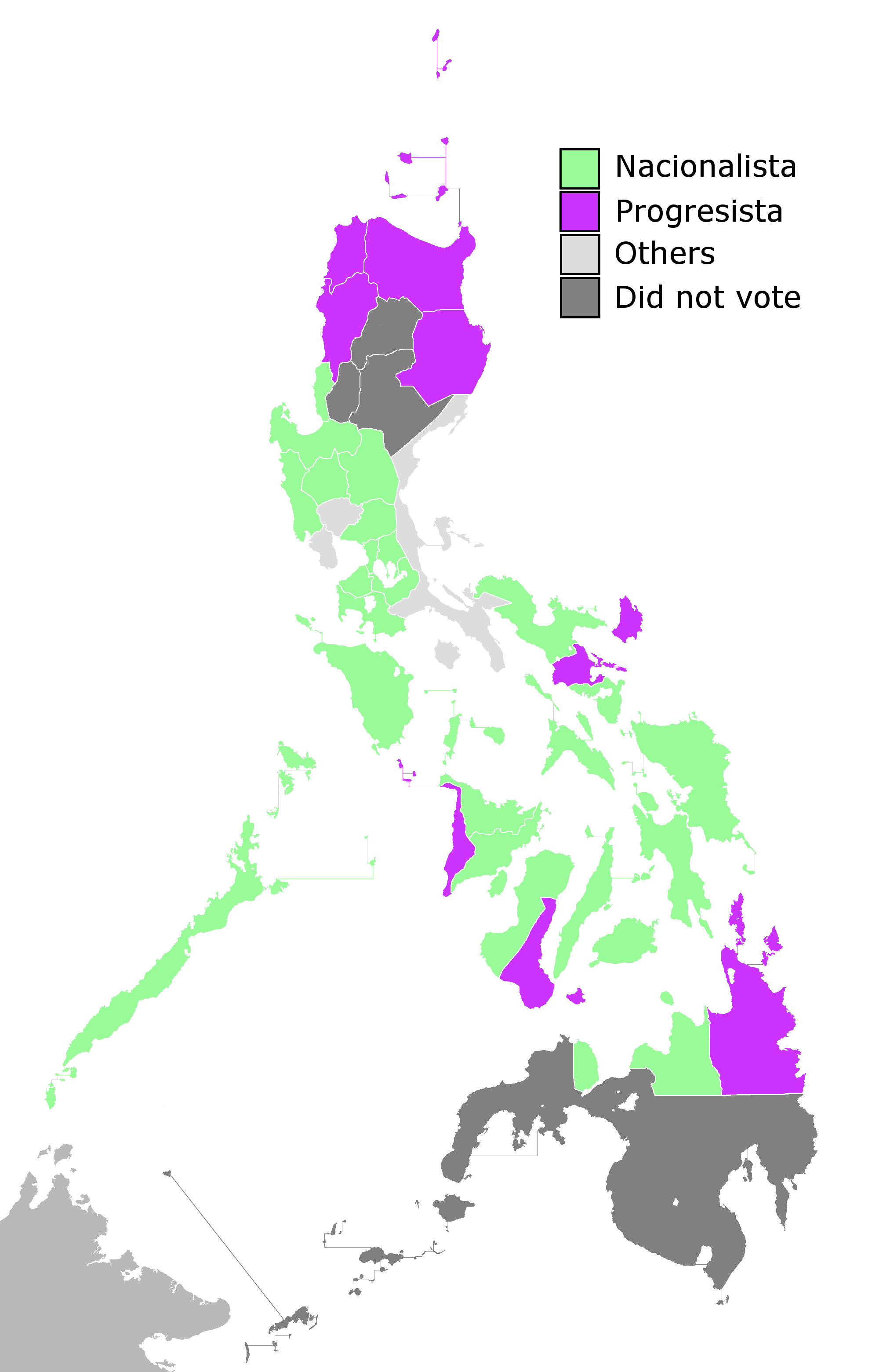 Results of Philippine Assembly elections, 1907.